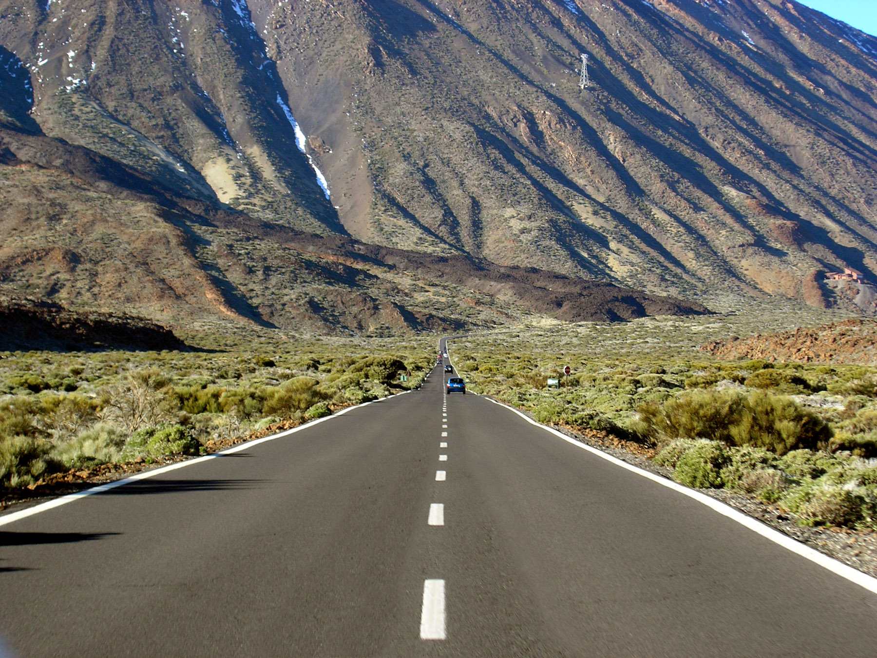 Road in the Teide National Park, Tenerife